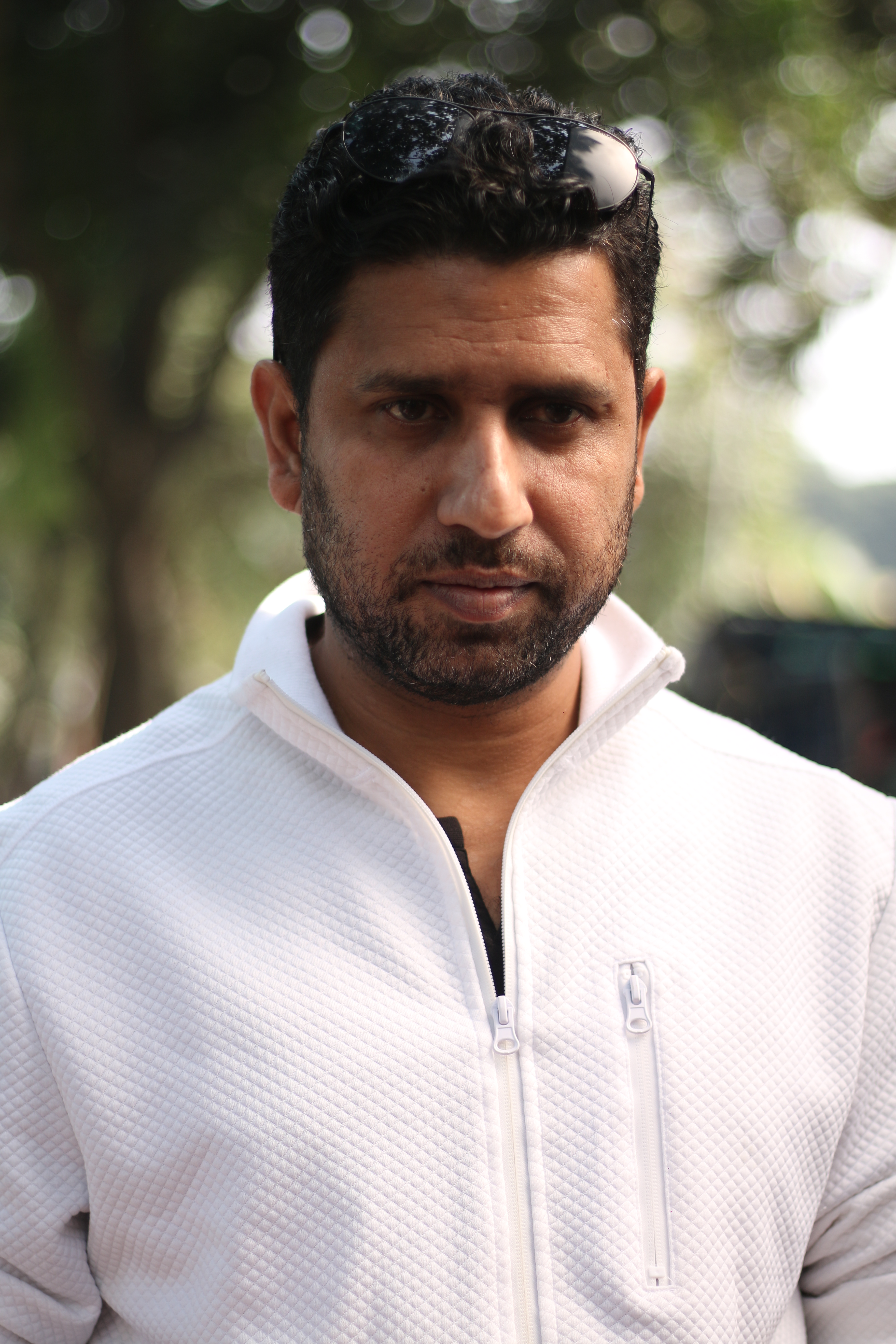 Mohammad Mostafa Kamal Raz in Shei To Ele Tumi shooting set